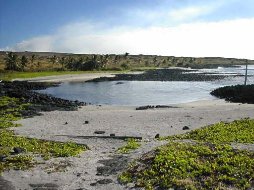 Halapē campground, Kilauea Hawaii, United States